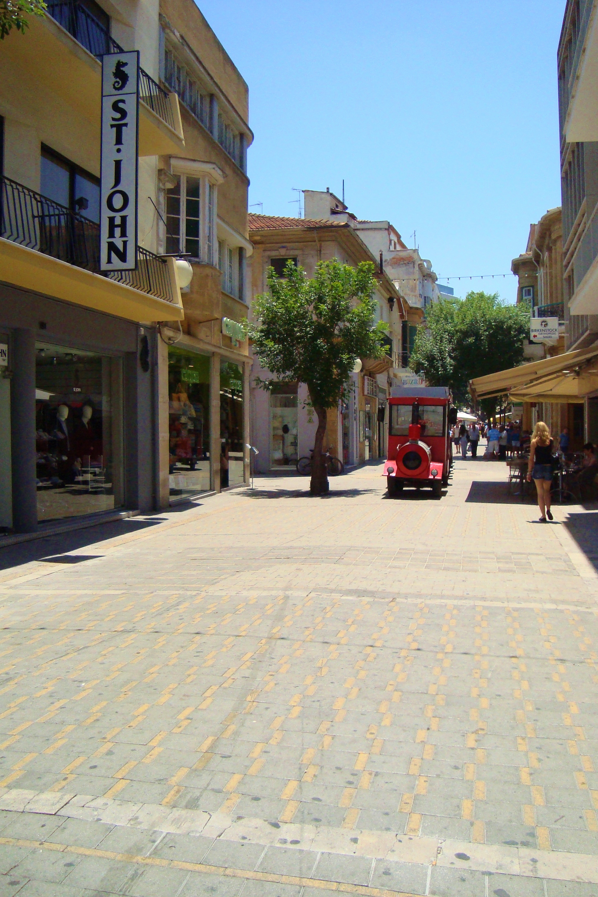 Ledra street train in Ledra street in Nicosia Republic of Cyprus